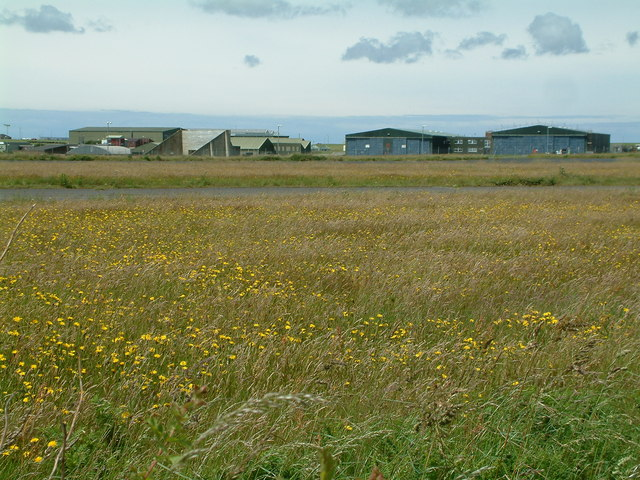 Brawdy Airfield, Brawdy, Pembrokeshire The buildings on this disused airfield are still in use, although it is now used by a Signals Regiment.